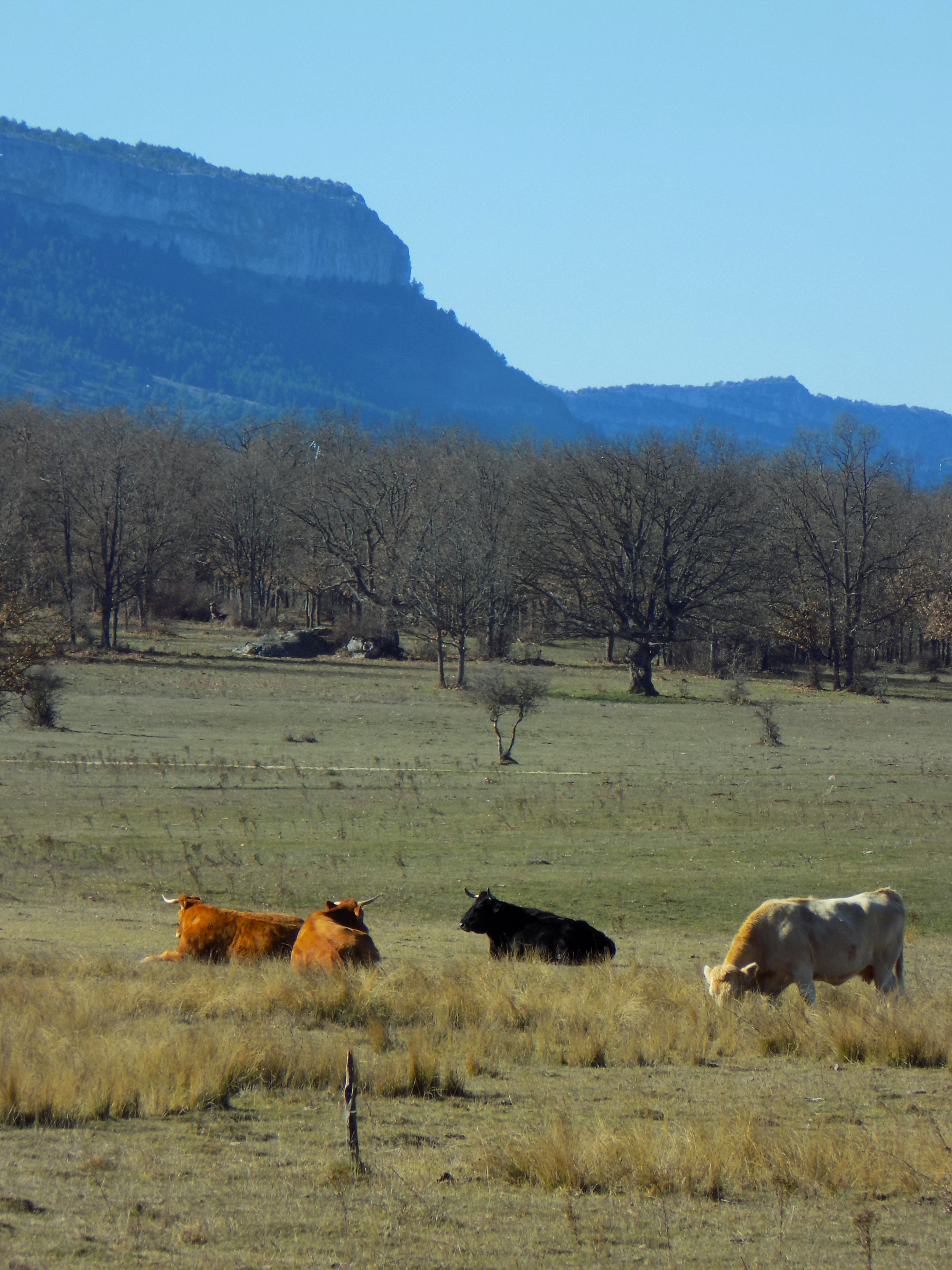 Bulls grazing on monte Valonsadero in front of Pico Frentes in Soria